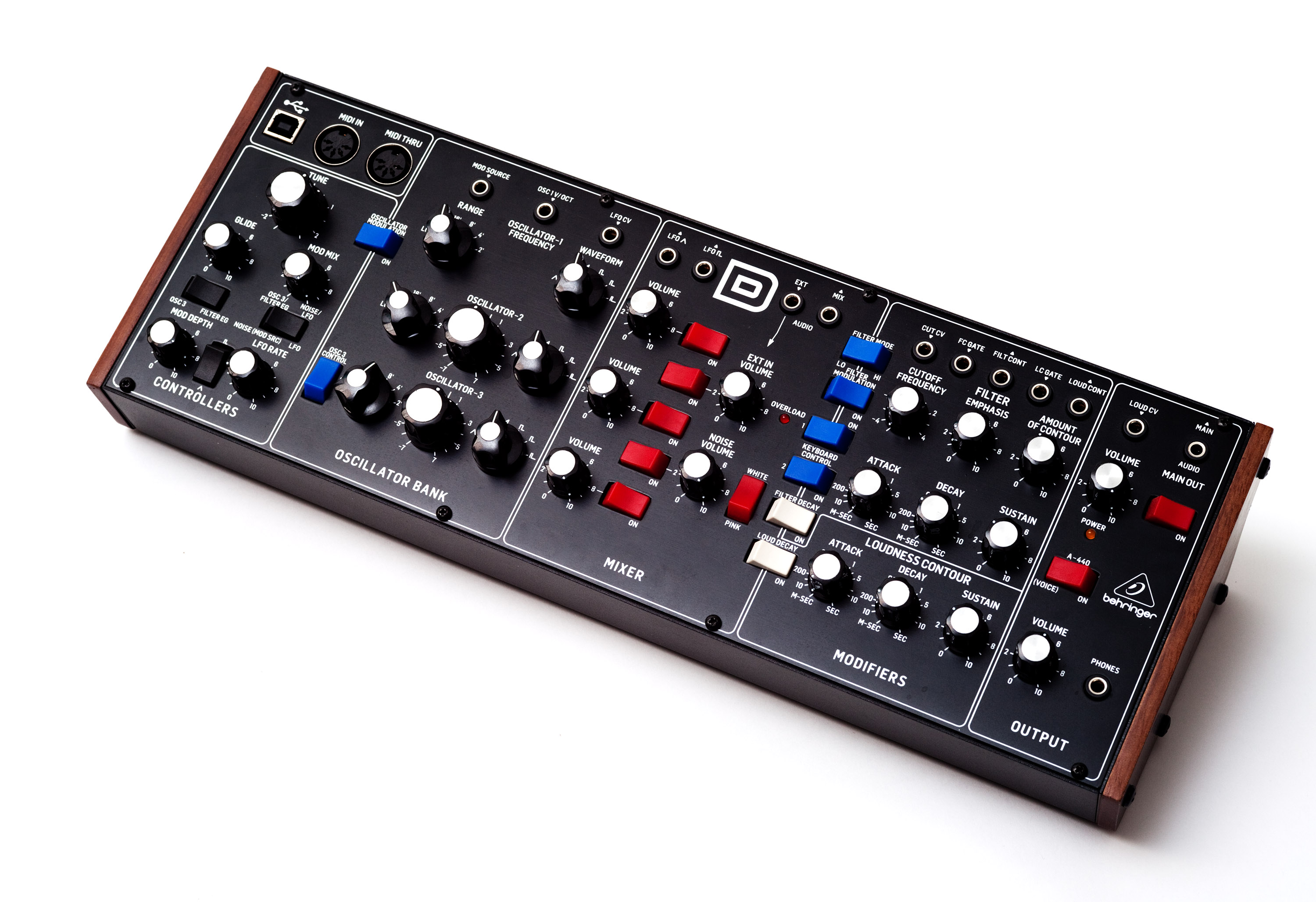 A Behringer Model D synthesiser